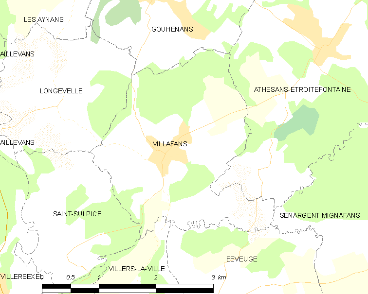 Map of French municipality